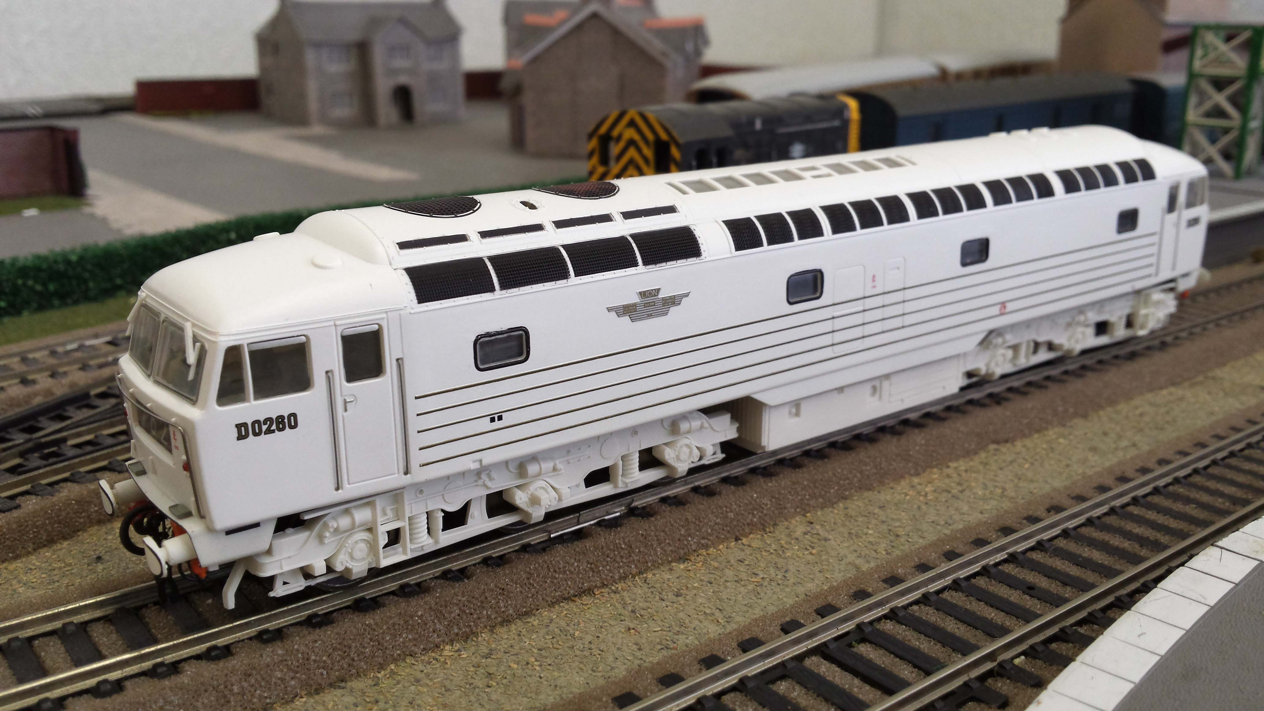 Heljans Limited Edition Model of LION in striking White with gold stripes livery